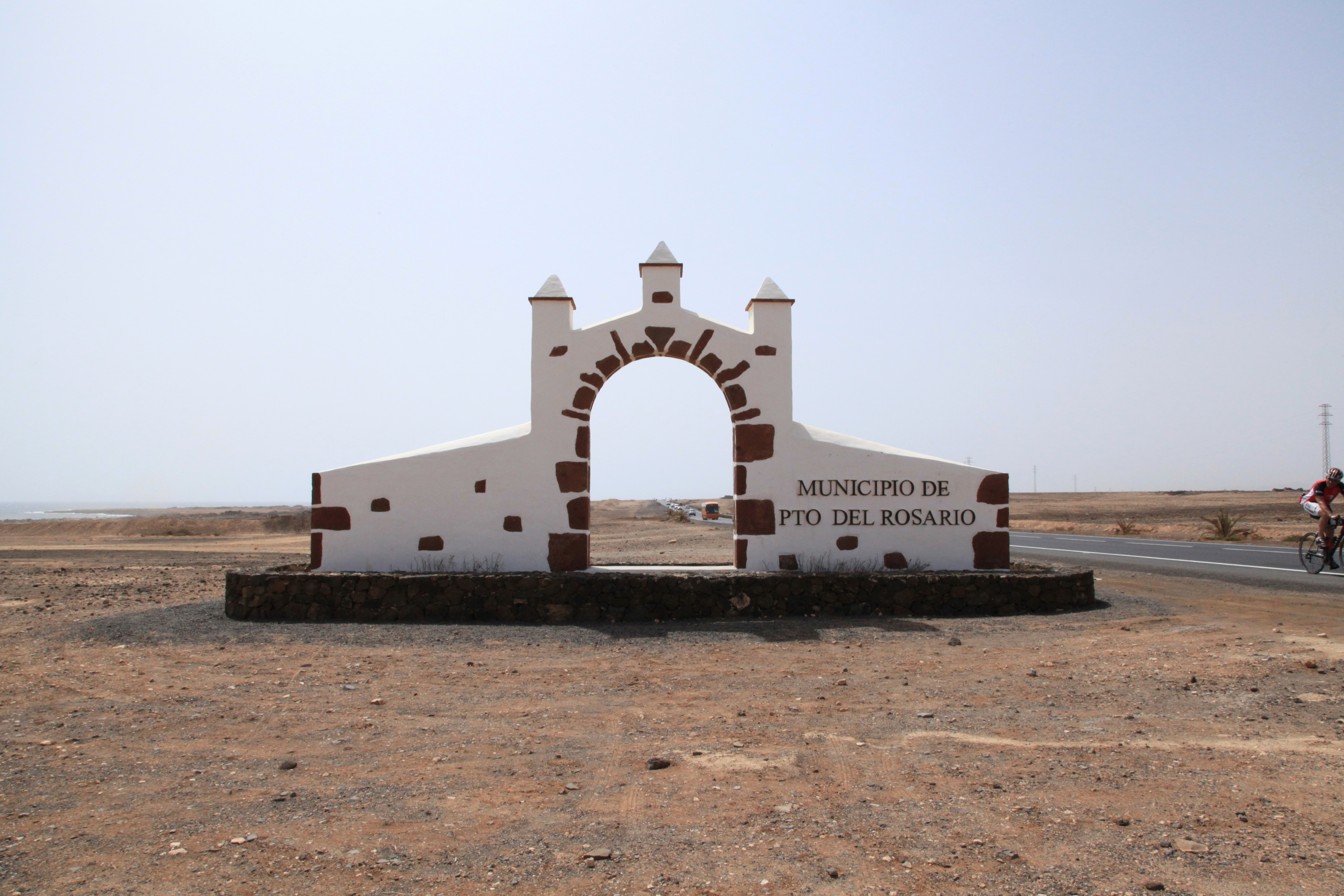 Road FV-1 in Puerto del Rosario, Fuerteventura, Canary Islands